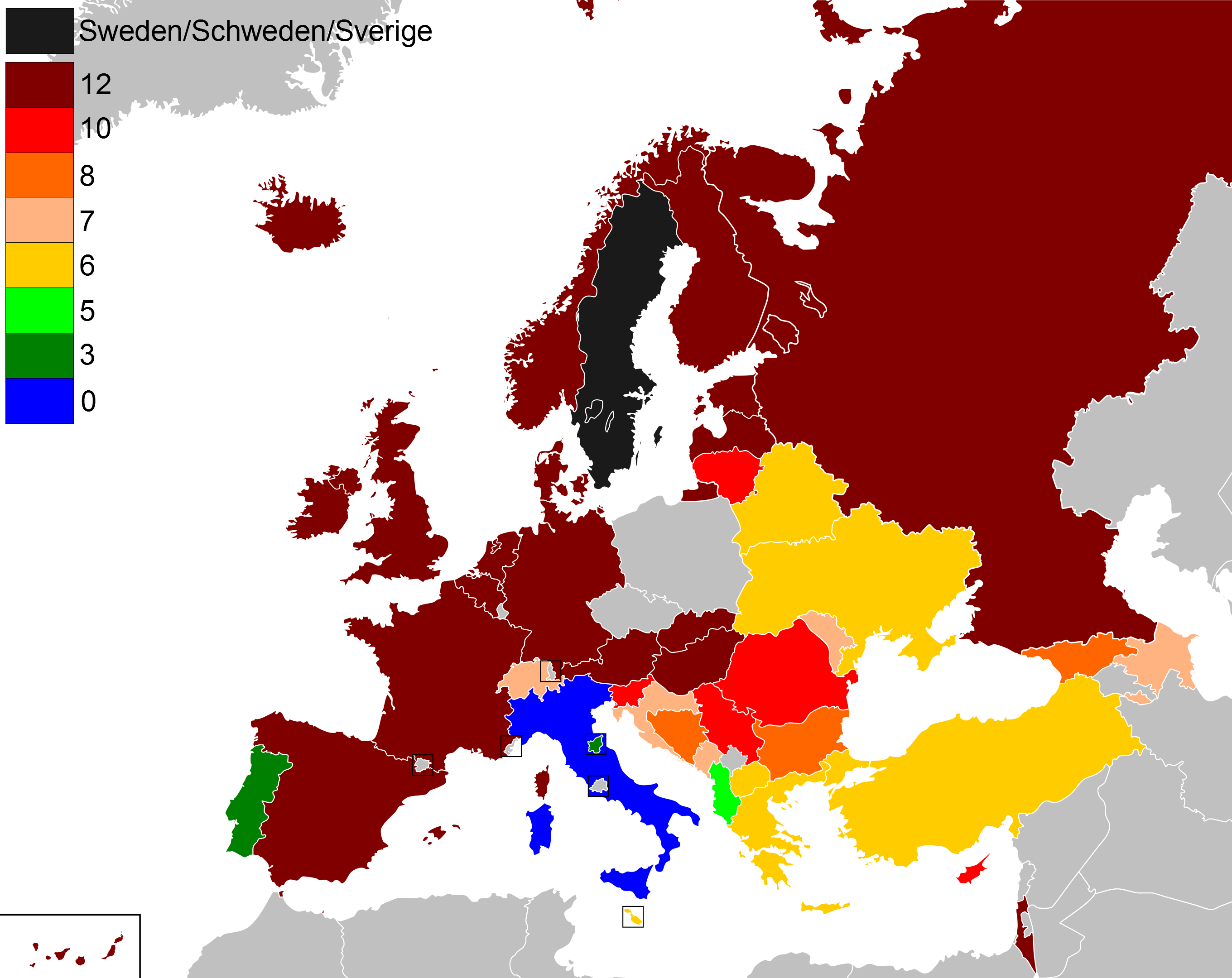 Points awarded during Eurovision Song Contest 2012 by television viewers in particular countries for the wining entry of "Euphoria" by Loreen, representing Sweden